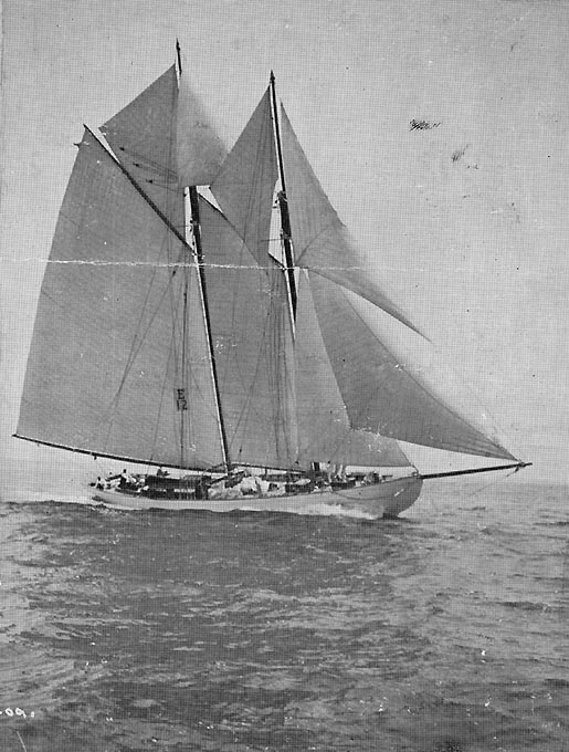 The motor schooner Eclipse, prior to her service as the United States Navy patrol vessel USS Eclipse (SP-417).